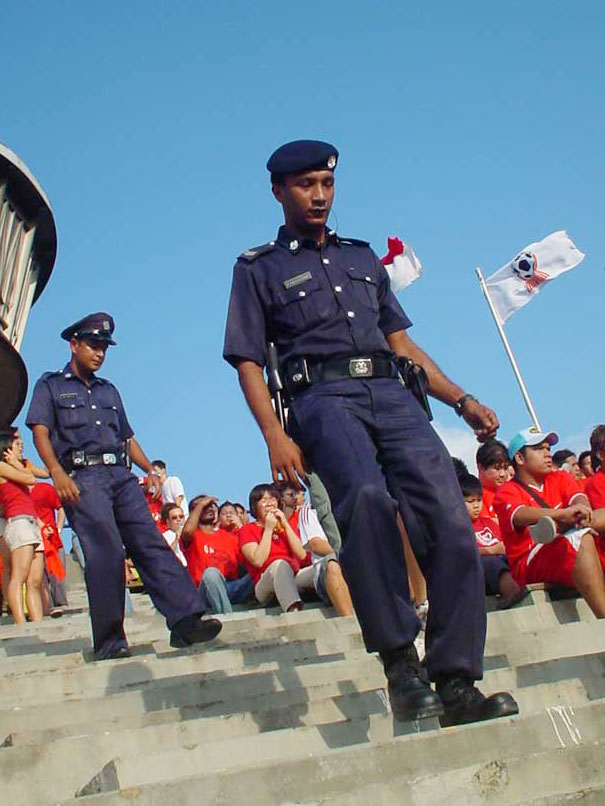 Commercial and Industrial Security Corporation officers securing the National Stadium during the finals of the Tiger Cup 2004 in Singapore.